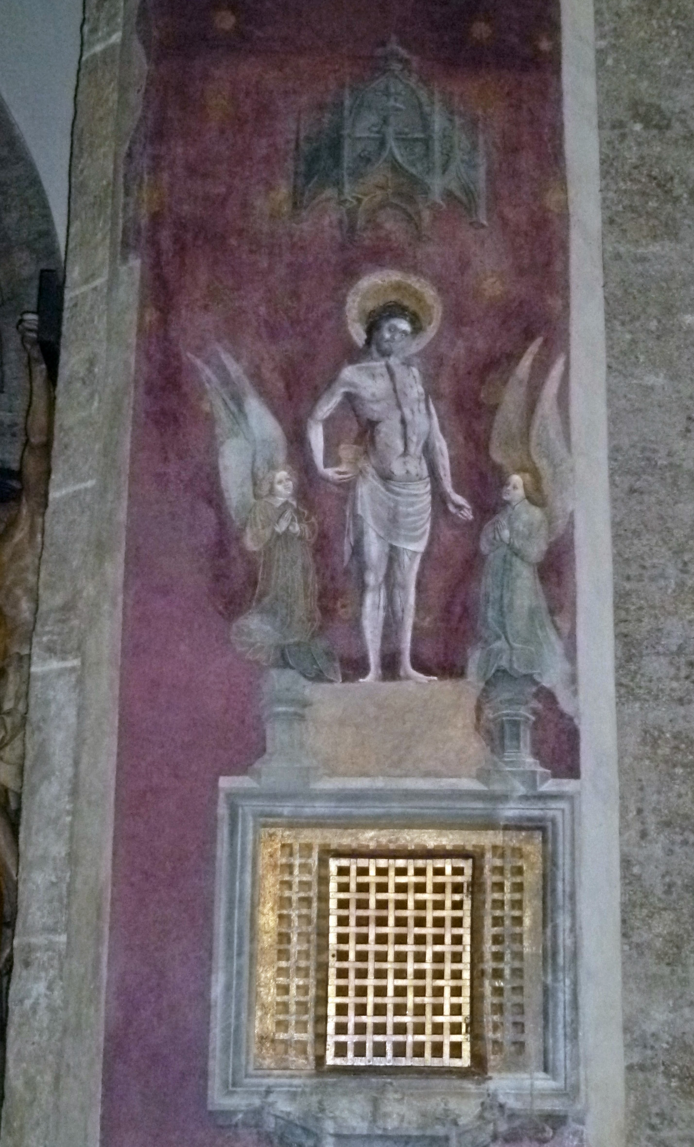 "Man of Sorrows", fresco (1446) by Conrad Laib on the triumphal arch in the Franciscan church of Salzburg, Austria